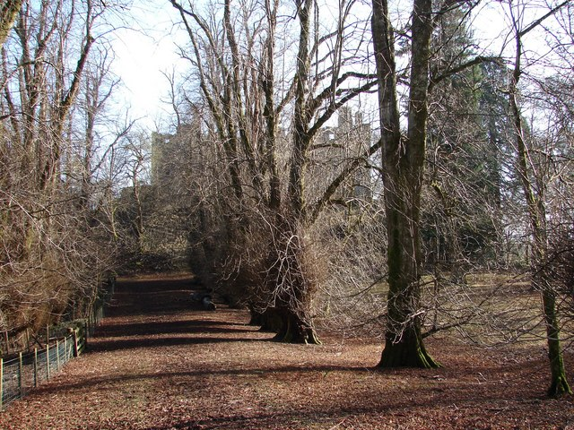 Kenmure Castle Avenue Winter scene on the approach from A762 to the large Kenmure Motte upon which Kenure Castle was built, the ruins of which can be seen through the trees.